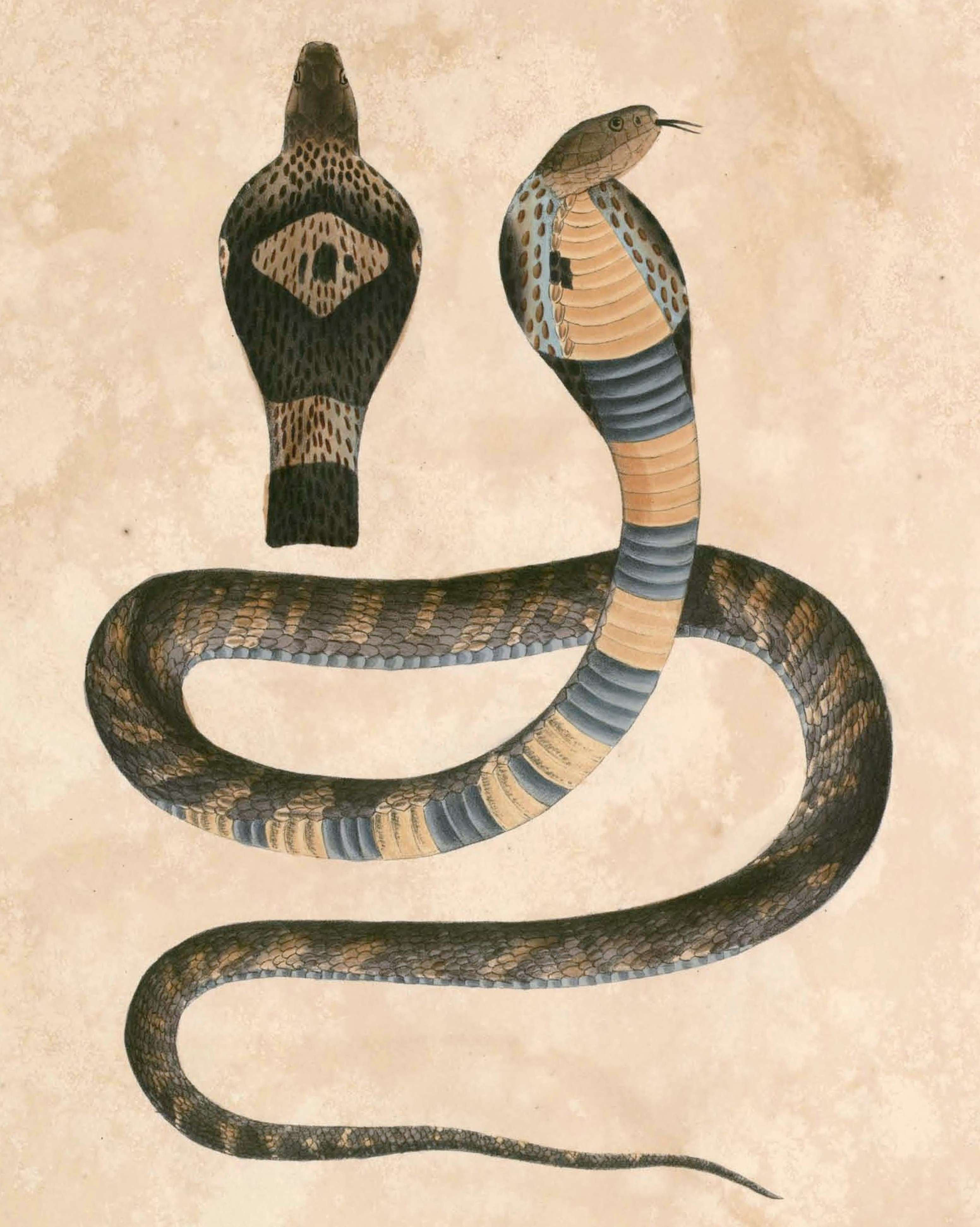 « Naia tripudians var. fasciata » = Naja atra (Chinese cobra)